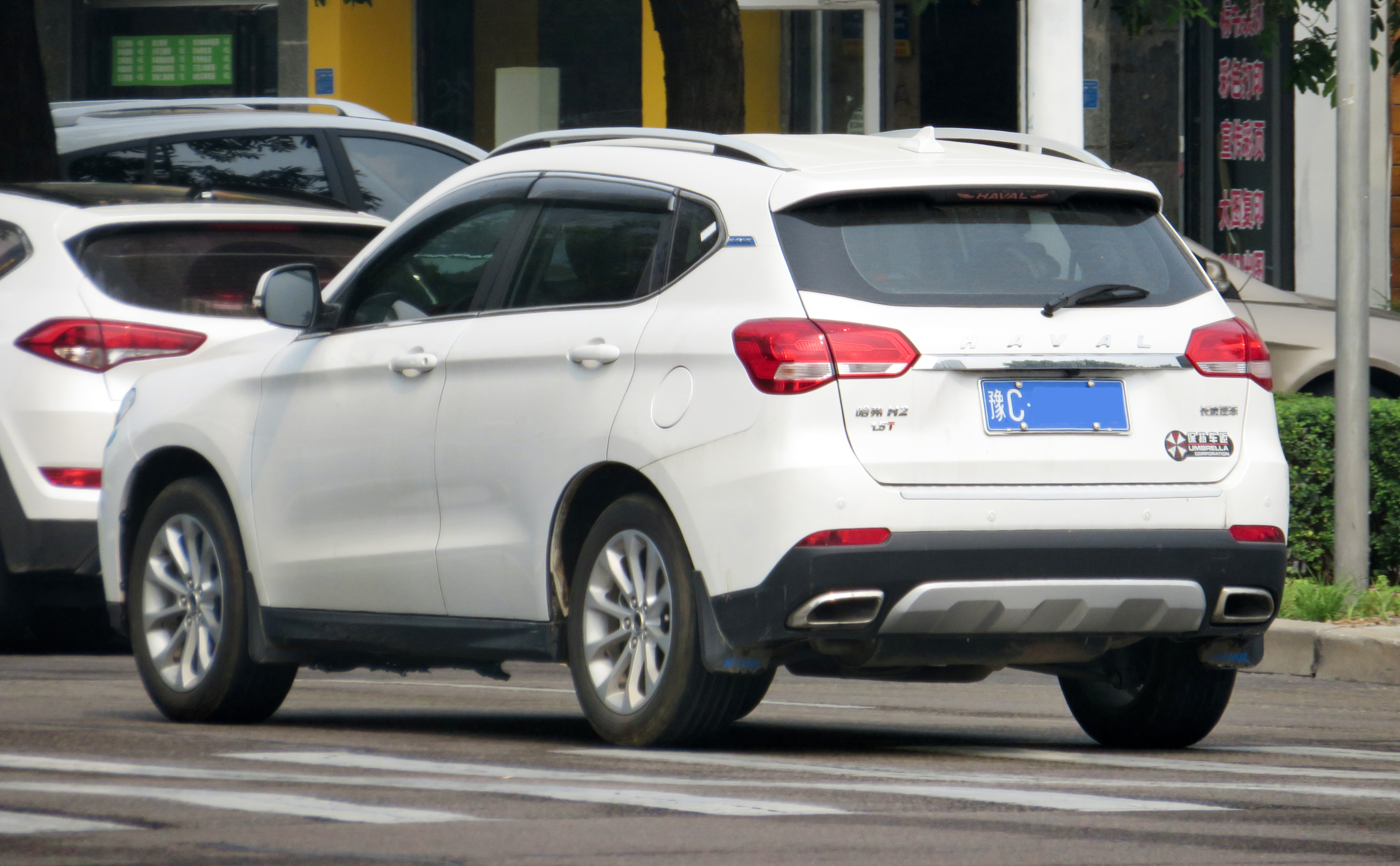 A 2017 Great-Wall Haval H2 photographed in Xigong District, Luoyang, Henan province, China